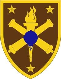 United States Army Warrant Officer Career College Distinctive Unit Insignia